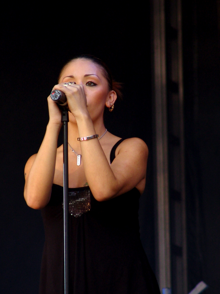 Mutya Buena in concert at Bristol Ashton Court